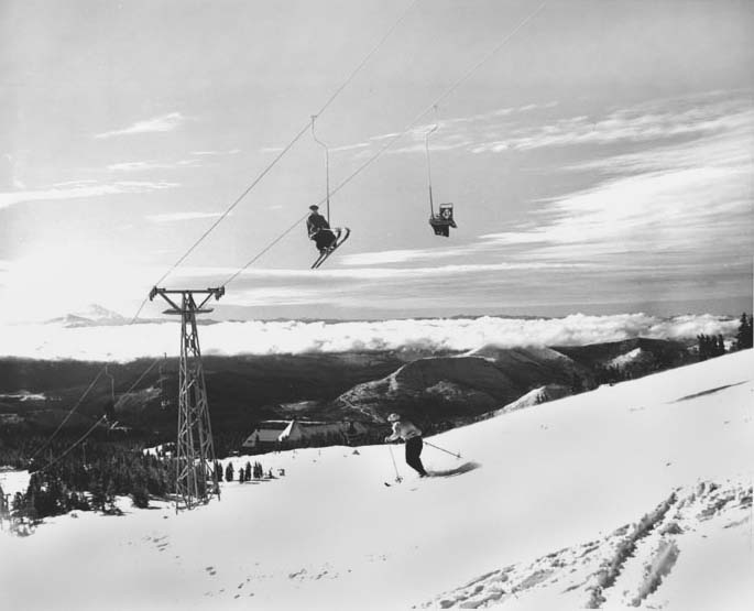 The original Magic Mile chairlift at Timberline Lodge ski area above the lodge. This was the second chairlift built to be a chairlift.